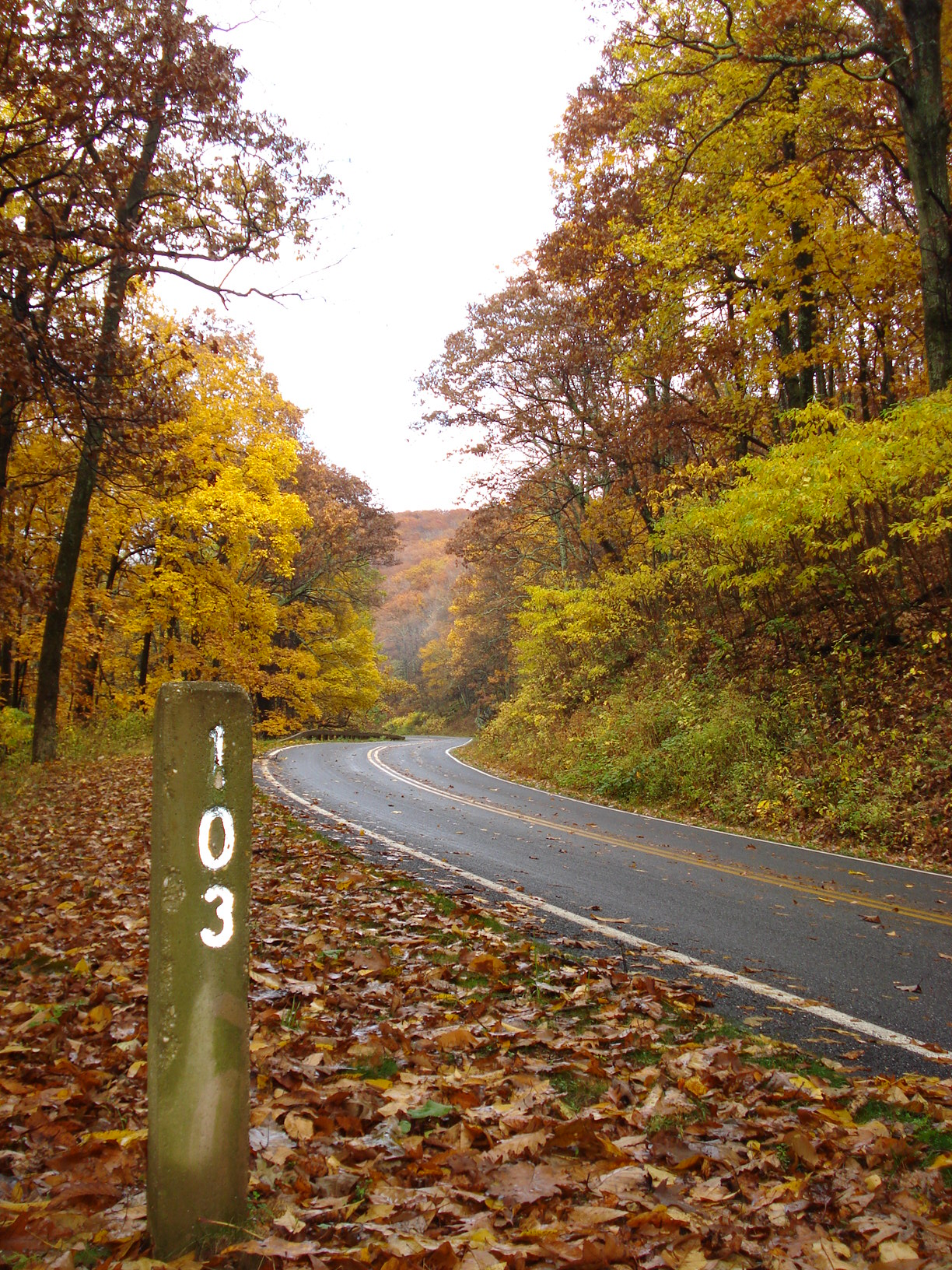 Fall colors near mile marker 103 on Shenandoah Skyline Drive — in Shenandoah National Park. Mile marker 103 is near the Rockfish Gap entrance on I-64.